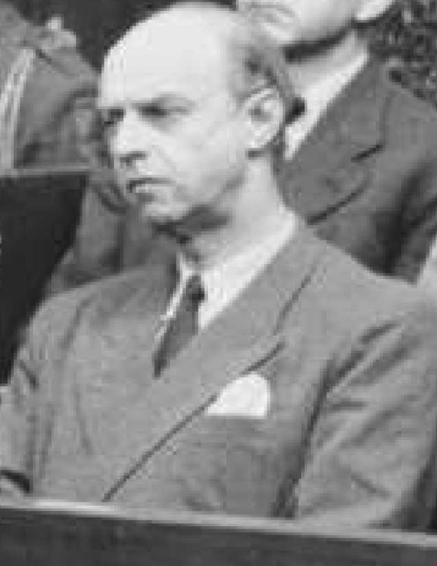 Gustav Adolf Steengracht von Moyland (Defendant of the Ministries Trial, Nuremberg)